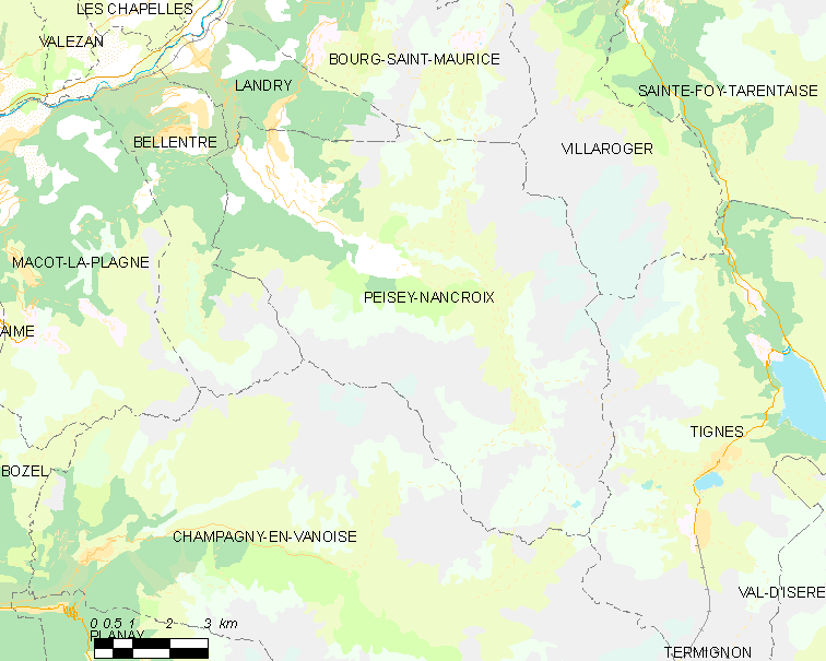 Map of French municipality